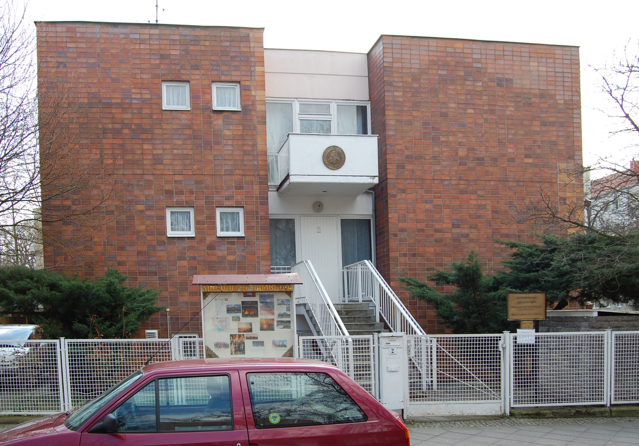 Embassy of Cambodia in Berlin